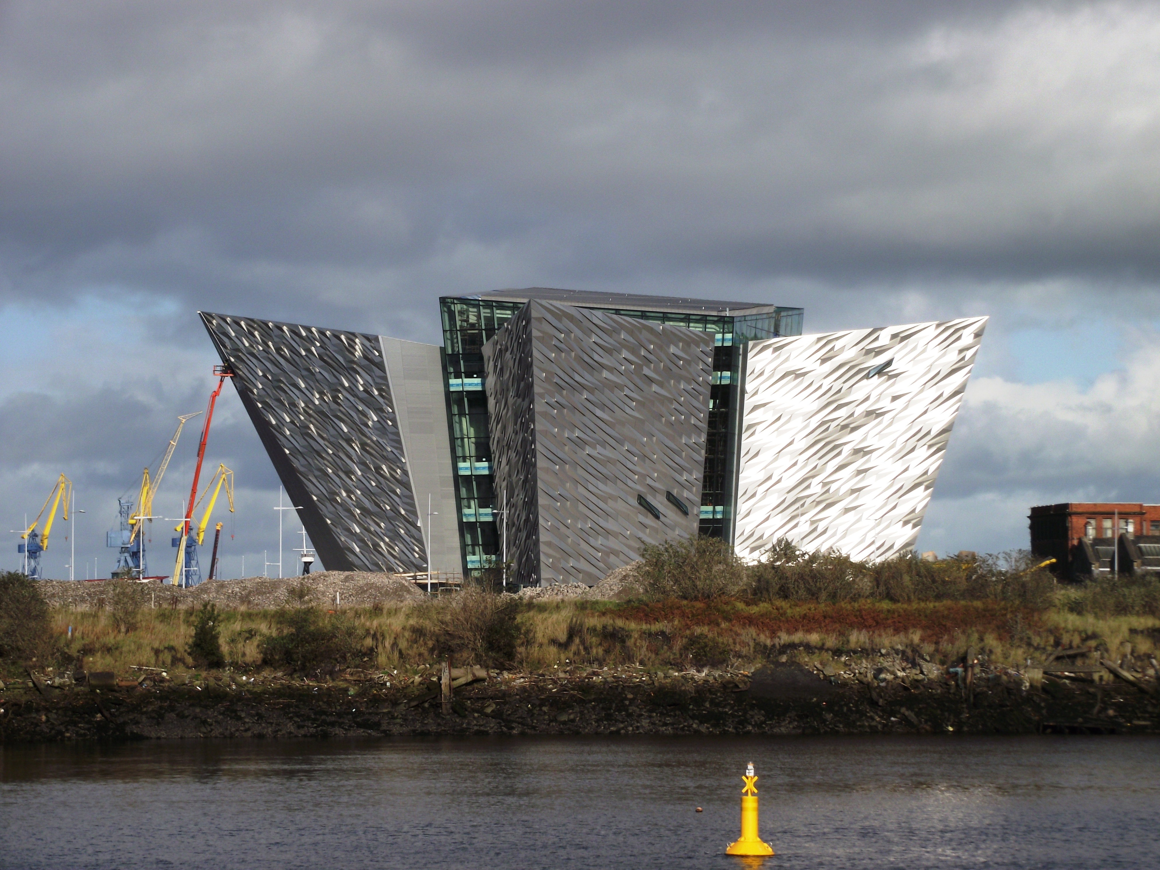 Titanic Belfast building, Queens Island, Belfast.